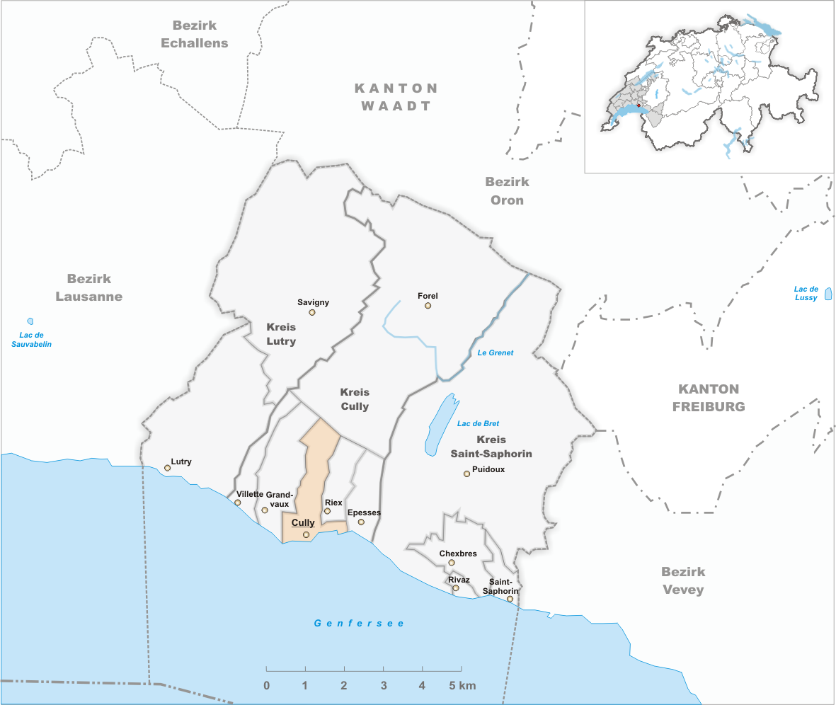 Municipality Cully